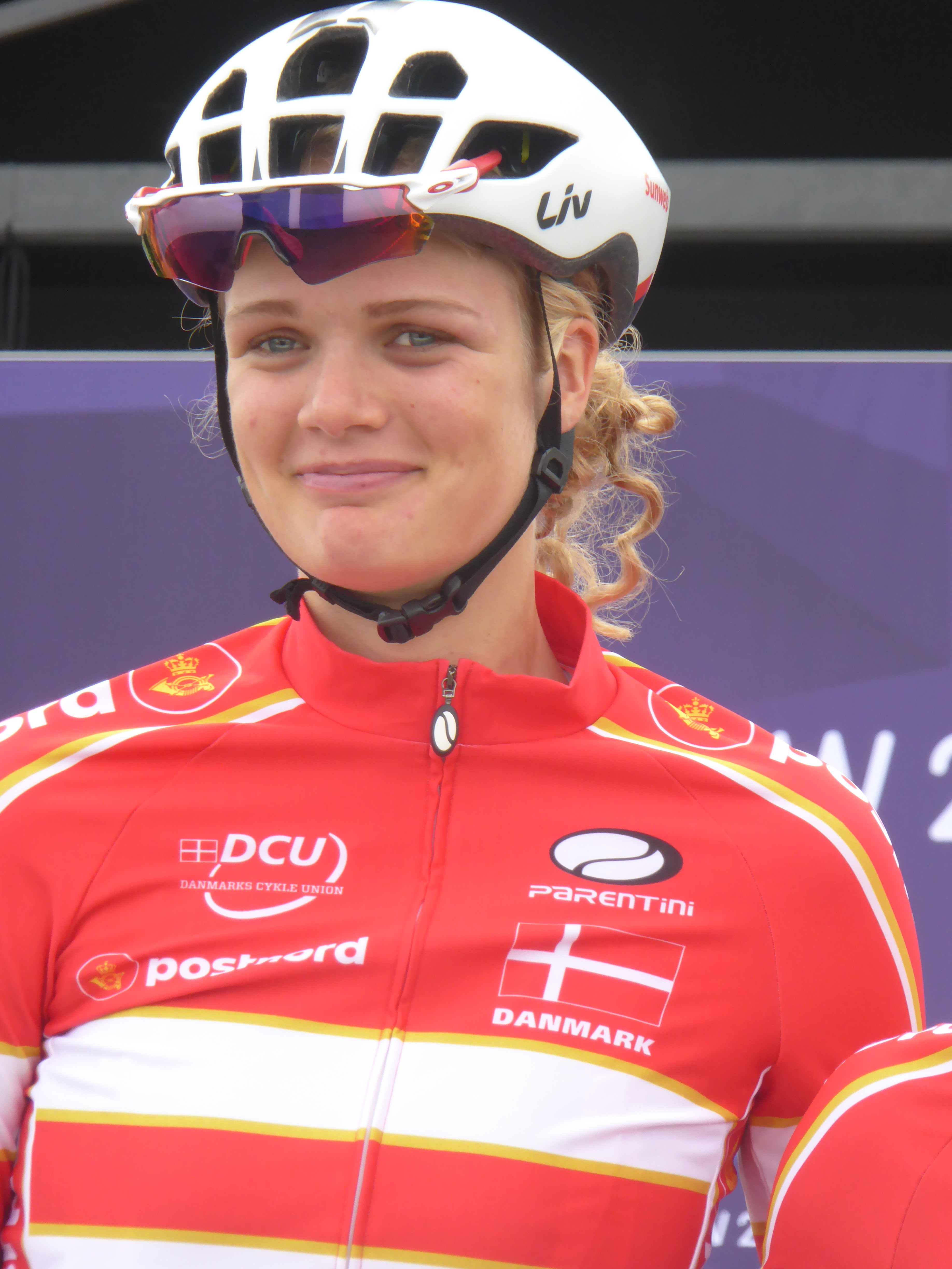 Pernille Mathiesen (Denmark), prior to the women's road race at the 2018 UEC European Road Cycling Championships in Glasgow.